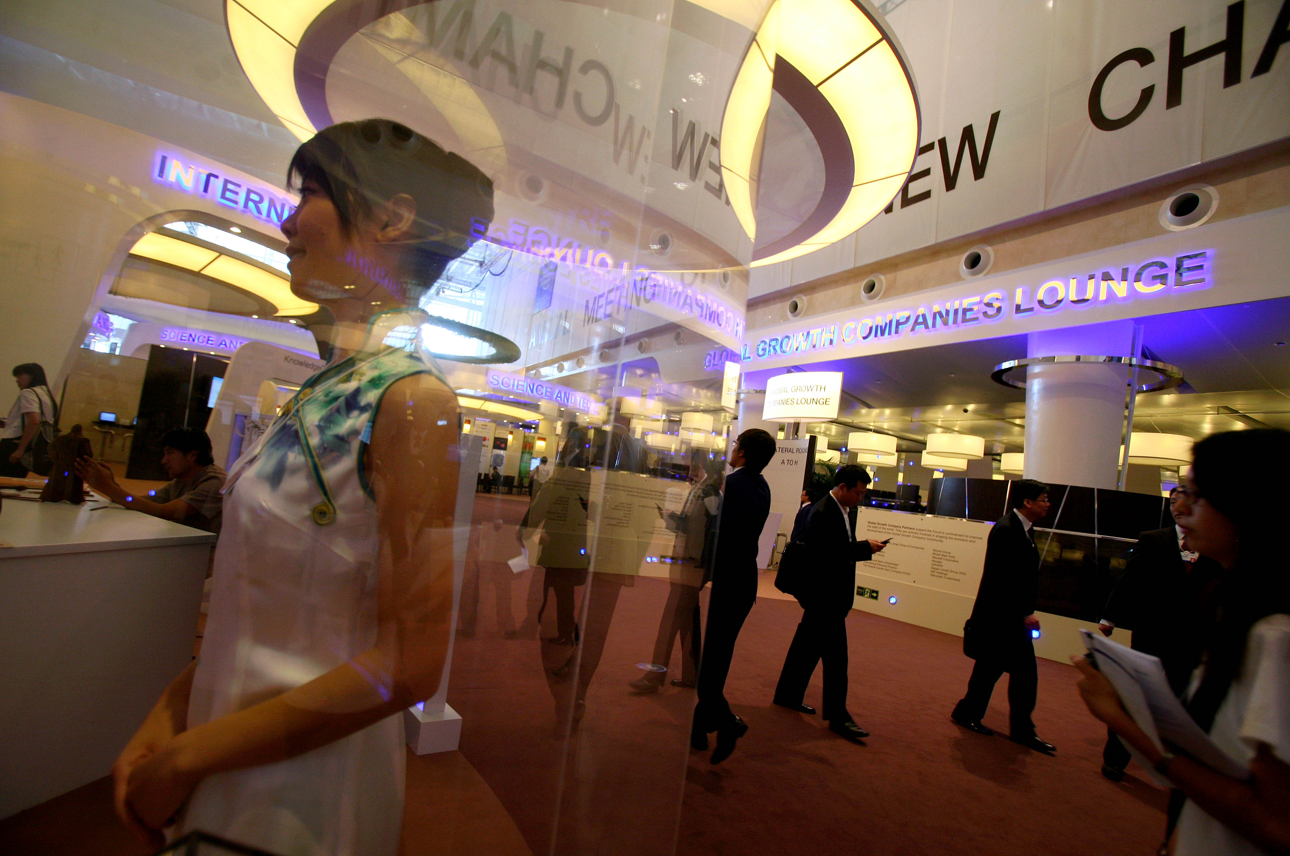 TIANJIN/CHINA 13SEP10 - Participants enter the Annual Meeting of the New Champions in Tianjin, China, September 13, 2010. Copyright World Economic Forum /Nick Otto